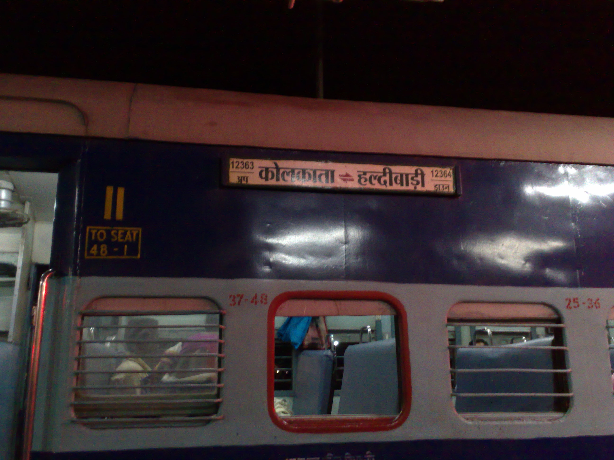 Kolkata Haldibari Tri Weekly Intercity Express - trainboard